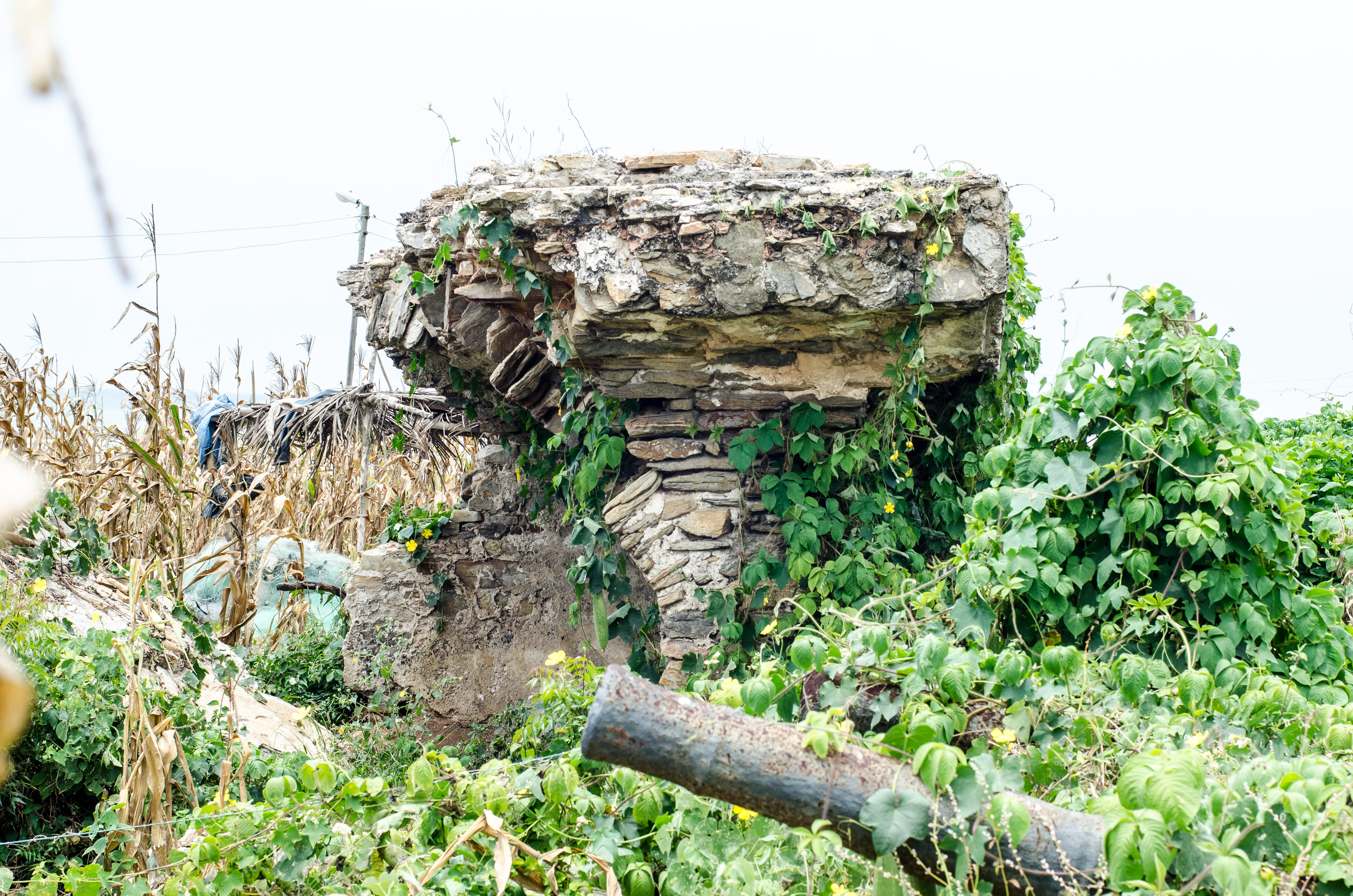 Wiki Love Monument entry for Fort Fredensborg built in 1736 - 42 used as a Fort in those day located in Old-Ningo in the Greater Accra Region of Ghana.